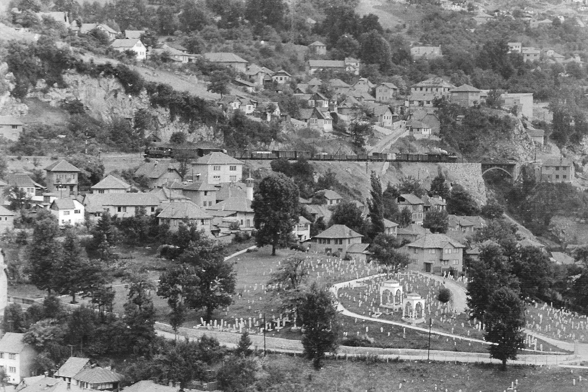 Bosnian Eastern Railway: Freight train with class 83 loco and banking engine at Sarajevo Bistrik